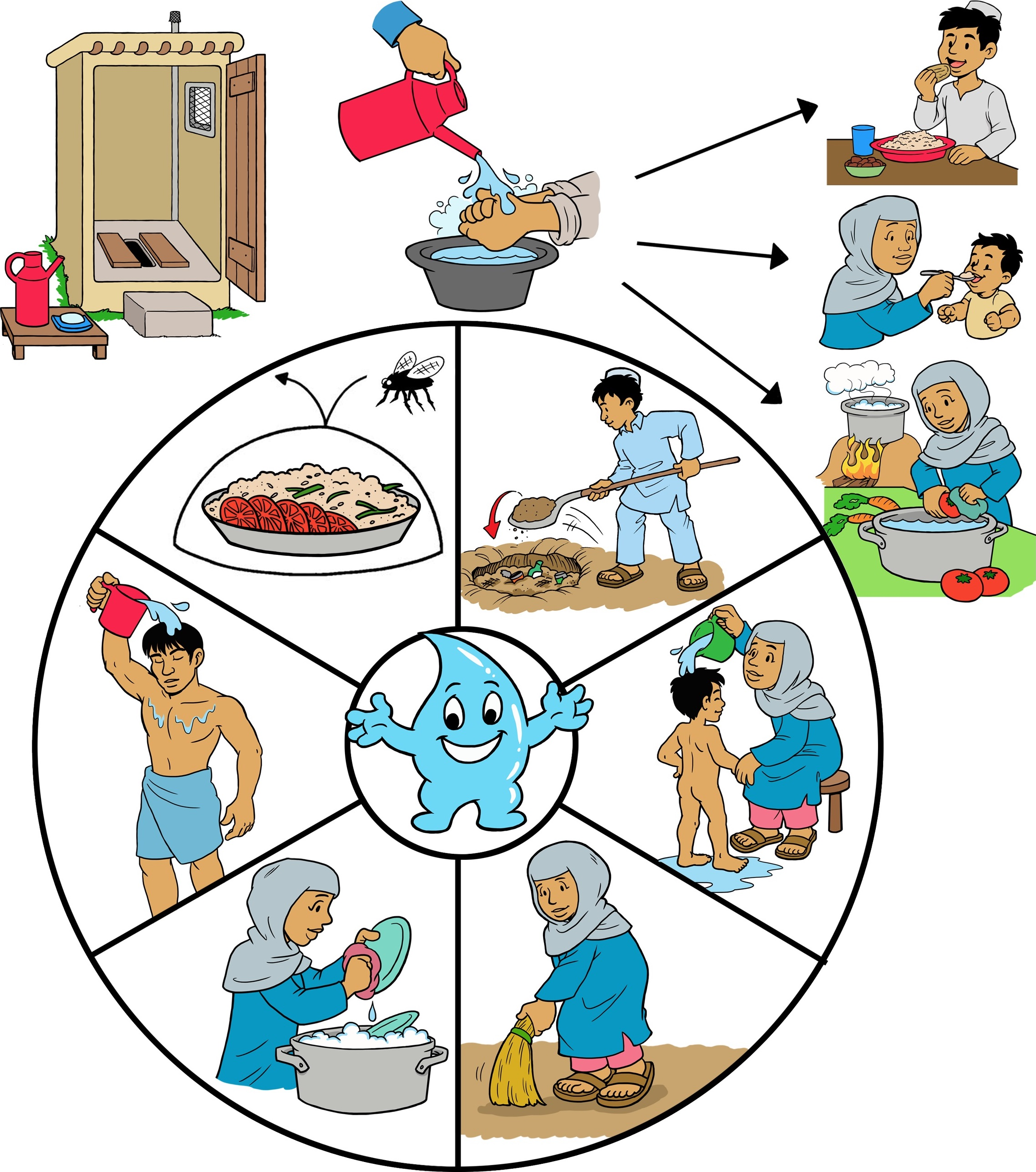 Poster about the importance of water for good hygiene. Used to raise awareness on that topic.